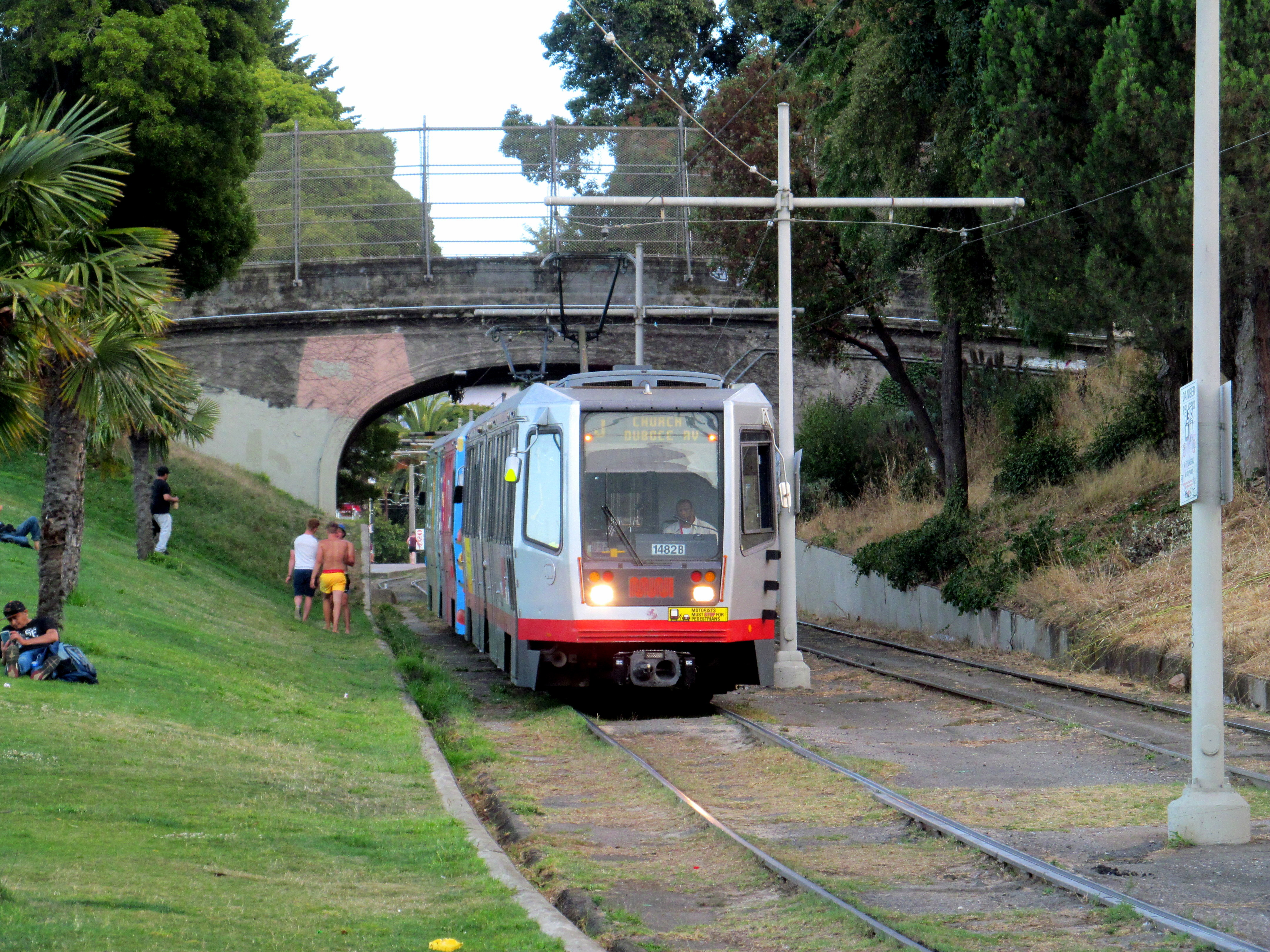 An inbound J Church train passes under the bridge in Dolores Park in July 2017. It has an atypical rollsign destination of Church and Duboce - during weekends and nights in July and August 2017, the N Judah and J Church were through-routed while the Market Street Subway was closed for testing new LRVs.